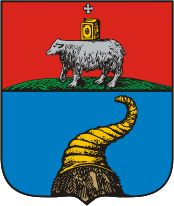 Kungur (Perm krai), coat of arms (1783)